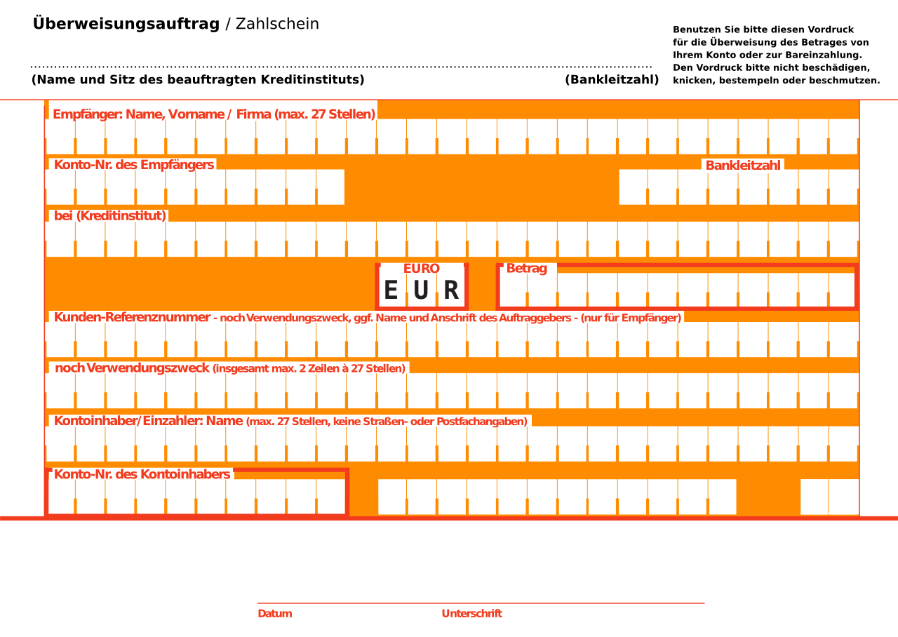 standard form for a wire transfer in Germany